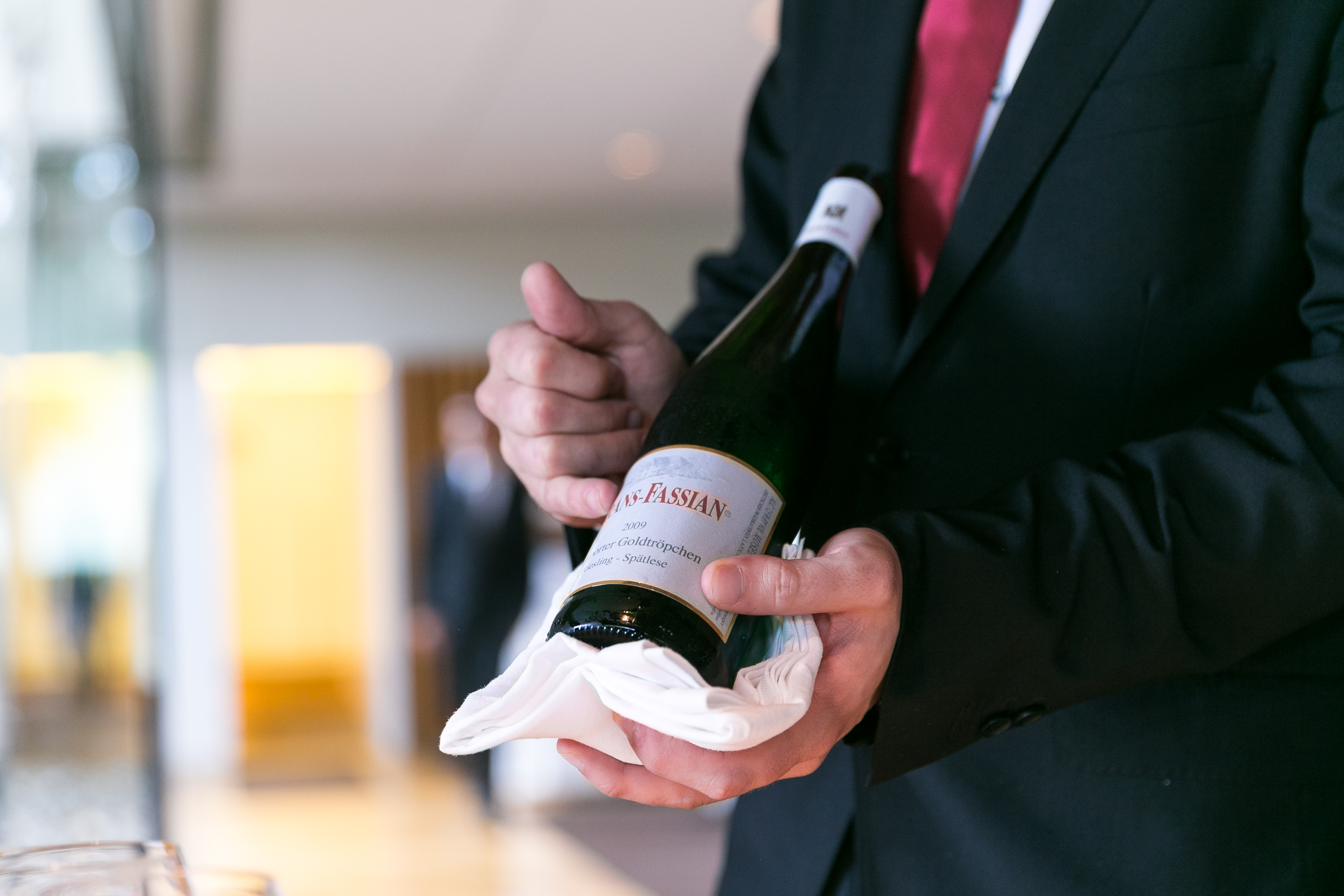 El Celler de Can Roca, Girona, Spain Date Visited: September 18, 2014